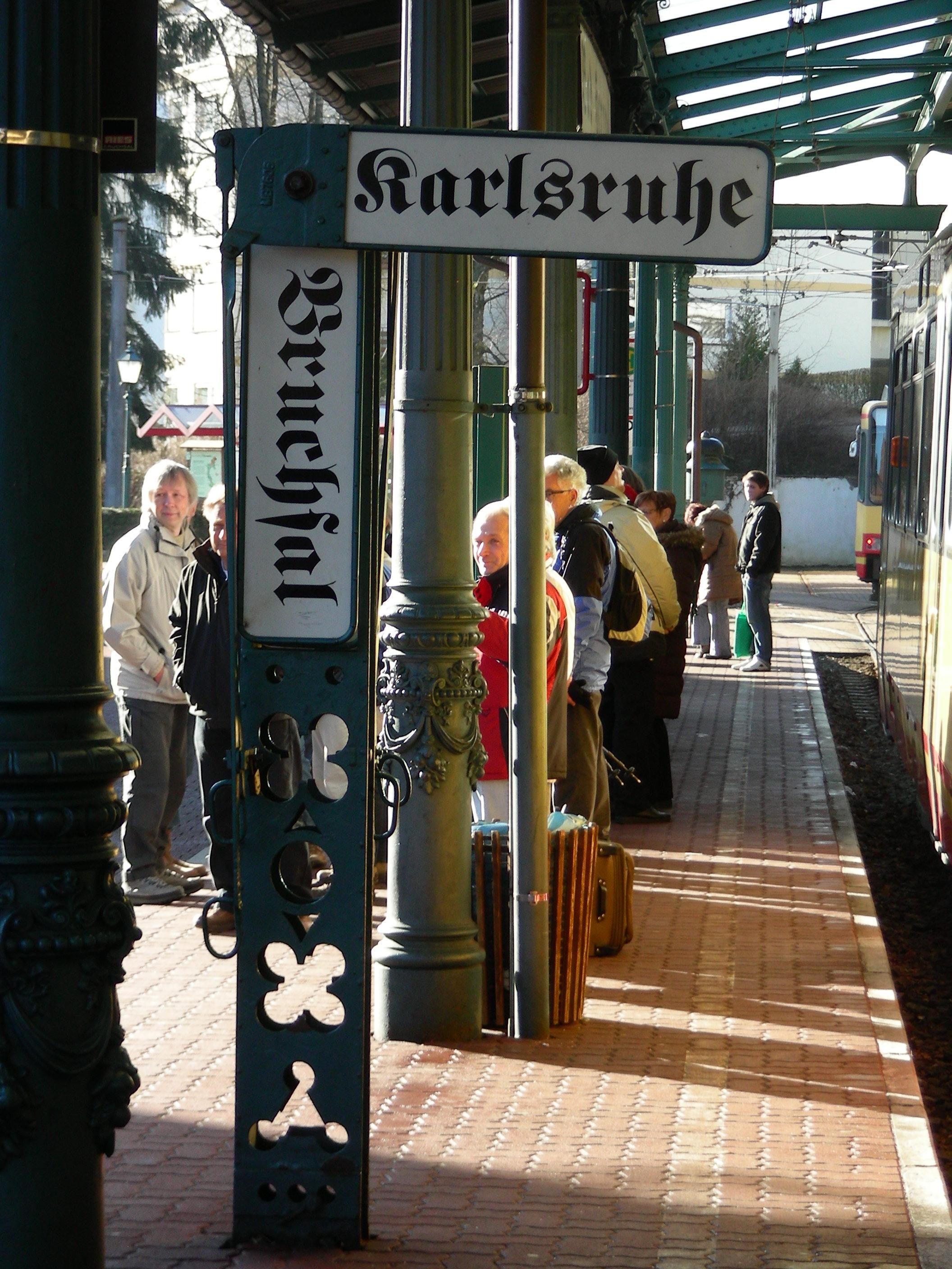 Mechanical train destination indicator at Bad Herrenalb station.